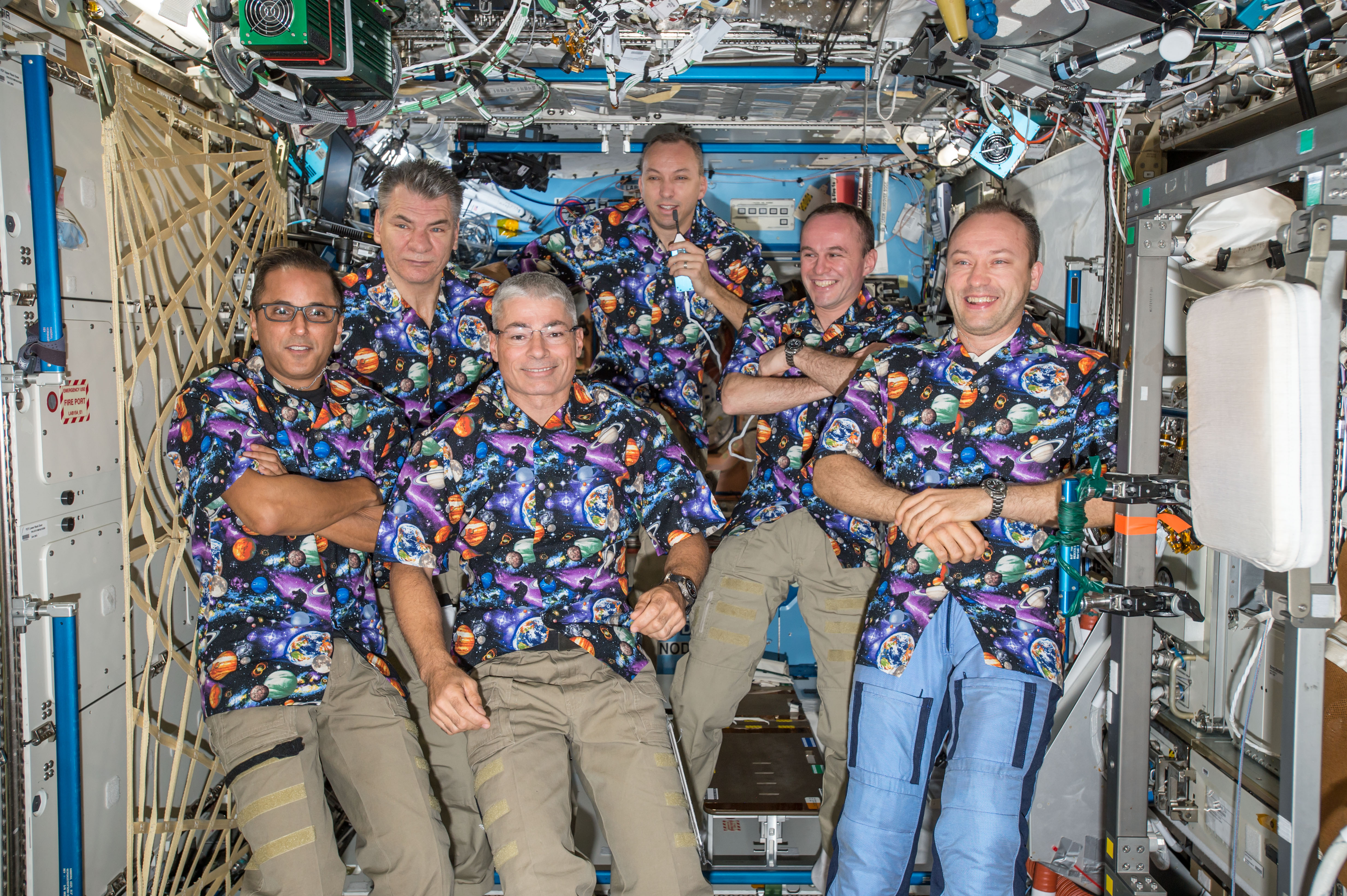 The six Expedition 53 crew members gather together in the Destiny laboratory module for a group portrait. From left are astronauts Joe Acaba, Paolo Nespoli and Mark Vande Hei, Commander Randy Bresnik and cosmonauts Sergey Ryazanskiy and Alexander Misurkin.